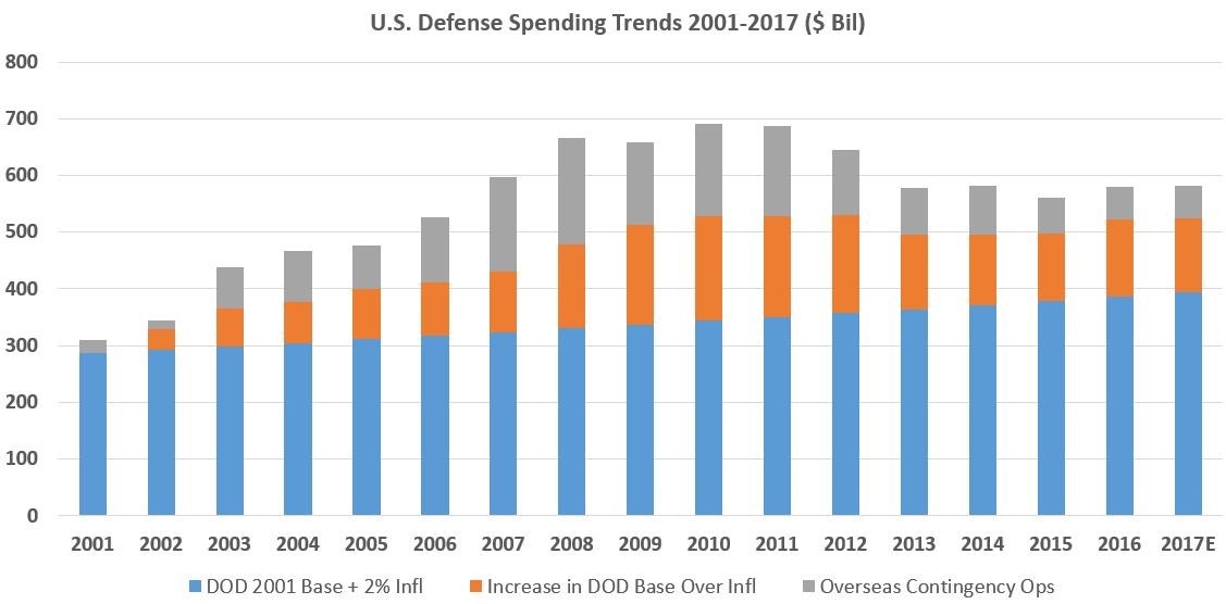 This shows the base defense budget plus specific funding for wars in Iraq and Afghanistan Chart explanation This chart shows trends in annual (fiscal year) defense spending from 2001 through 2017. The 2017 amount is an estimate. The chart shows three series of data: DOD base + 2% inflation: The 2001 base level of spending assuming it kept pace with inflation, which averaged 2% during the period. Increase in DOD base: The increase in the base level of spending above the 2% inflation adjustment. OC or Overseas Contingency Operations: Funding mainly for the Iraq & Afghanistan wars, plus other "War on terror" expenses. So the base spending is the first two statistics. For the 2001-2017 period, the OCO amount was $1,677 billion. The Base + Inflation amount was $5,751 billion. The Increase over inflation was $1,961 billion. The sum of the three was $9,390 billion. Source Data Version two of the chart: Defense Budget Overview-FY 2017 U.S. DOD FY2017 Budget Request Version one of the chart (superseded): The data from 2001 - 2014 are from the Office of Management and Budget (OMB). The data is contained on page 8 of the OMB document here: OMB-Overview FY 2014 Defense Budget The two documents below have the data for a similar analysis from CBO through 2009; one has the total amounts and the other has additional commentary on amounts spent in the wars, broken out by year. CBO-Historical Tables CBO-Testimony on Costs of Iraq & Afghanistan Wars Here is a similar chart from the DOD for the 2010 budget: DOD-Defense Spending Trend Chart-May 2009 This supersedes an earlier chart on Commons: thumb|right|Defense Spending 2000–2011.